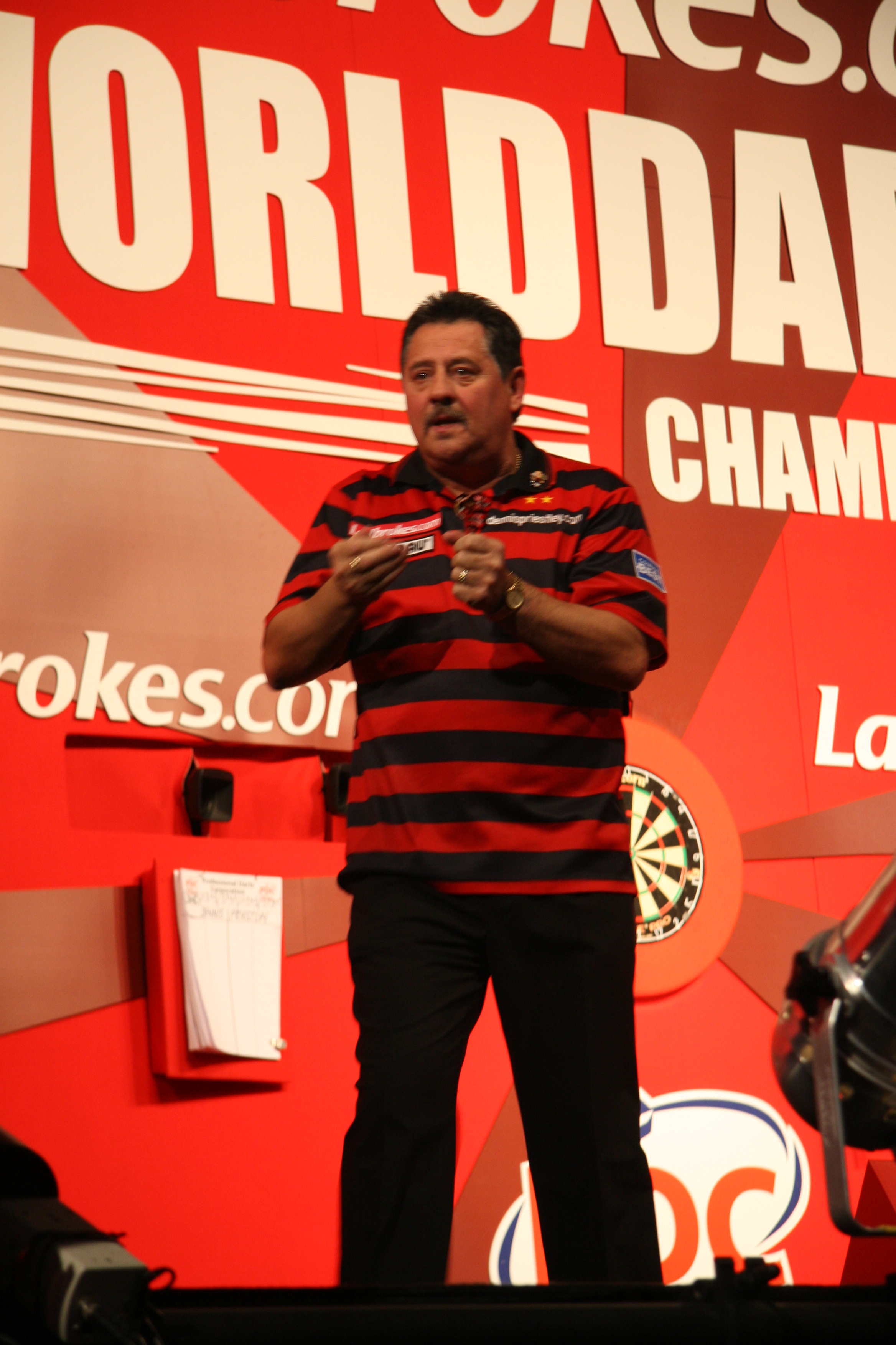 Dennis Priestley the darts player